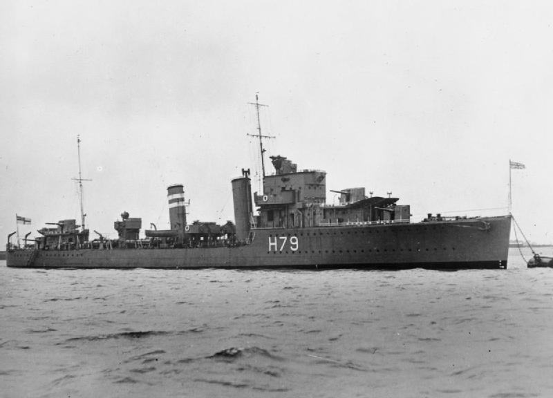 Photograph of British destroyer HMS Firedrake pre-1942.